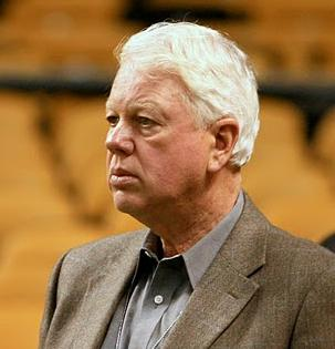 Bob Ryan on the Celtics playing floor before game 7 of the 2009 ECF versus Orlando.